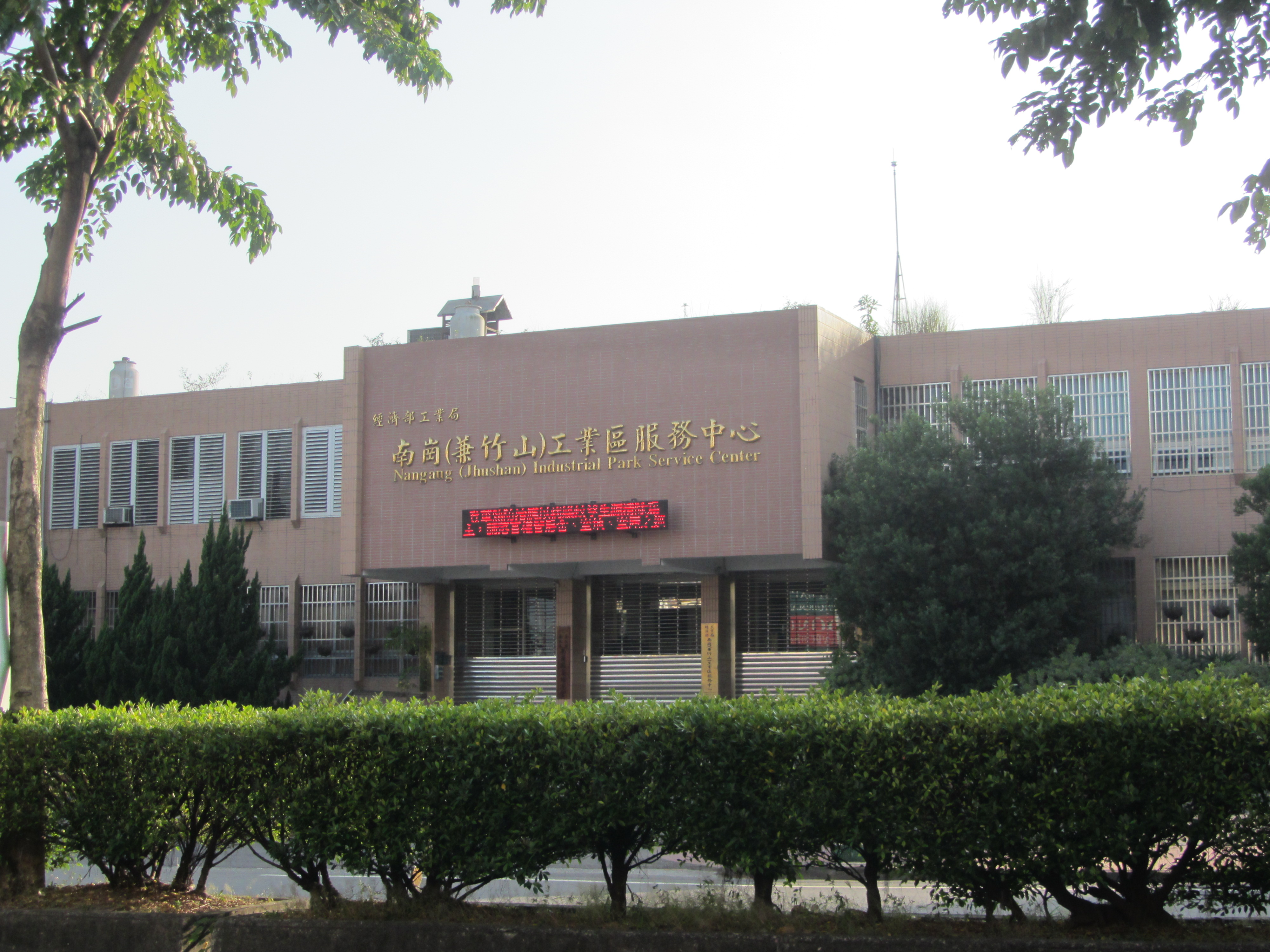 Nangang (Jhushan) Industrial Park Service Center